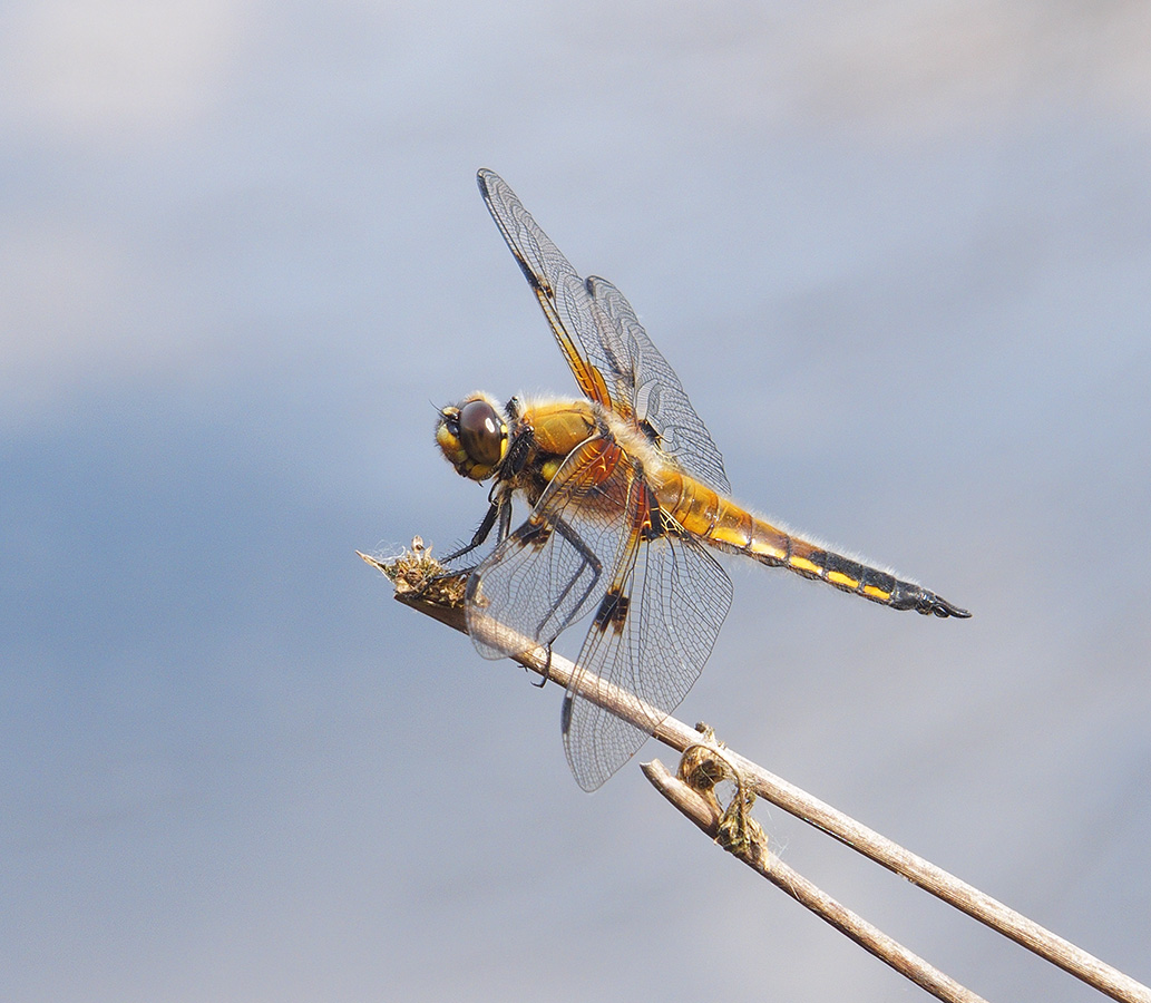 Four-spotted chaser (Libellula quadrimaculata) on lookout